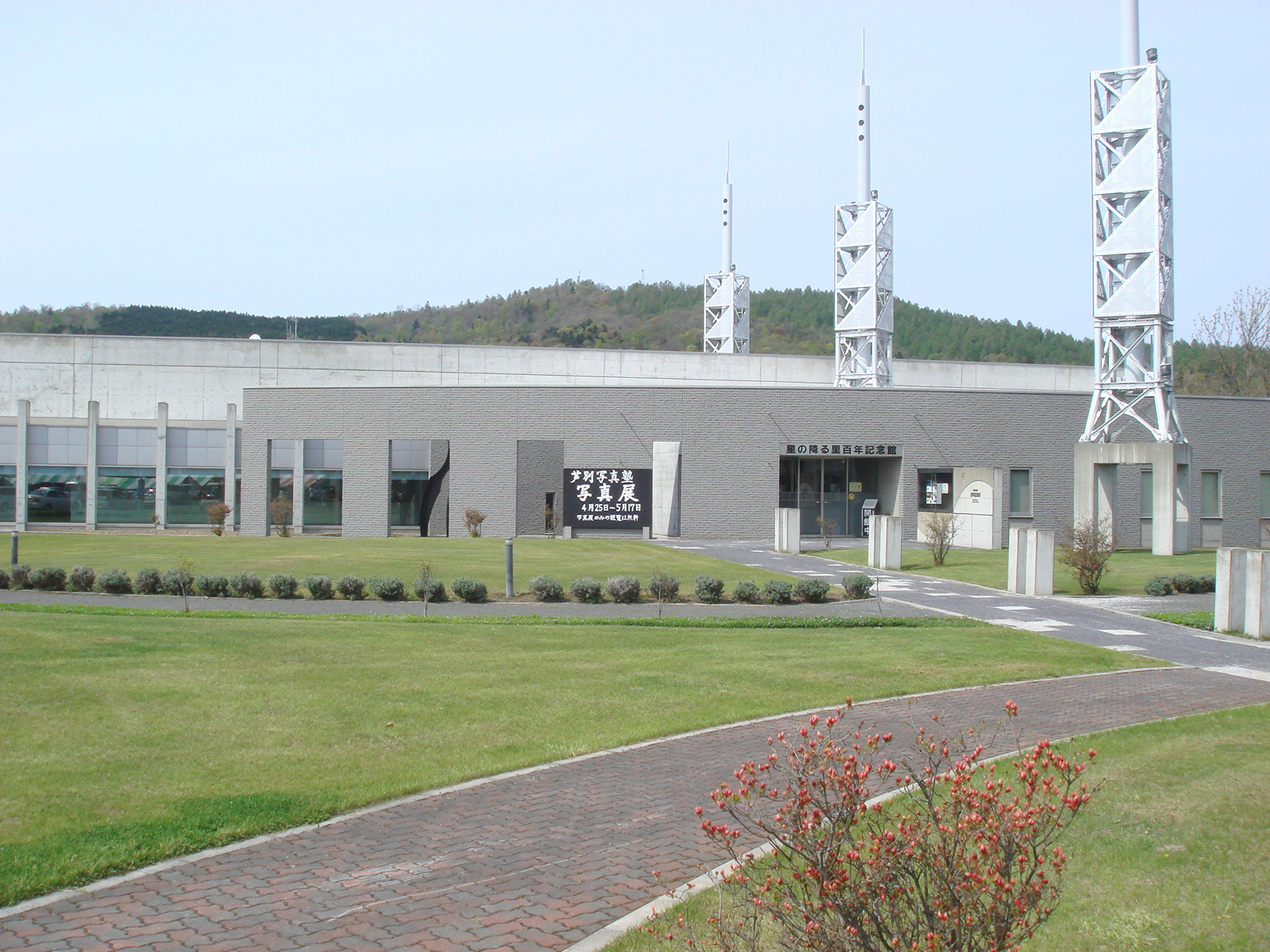 Hoshi no furu Hyakunen Museum (Ashibetsu, Hokkaidō)